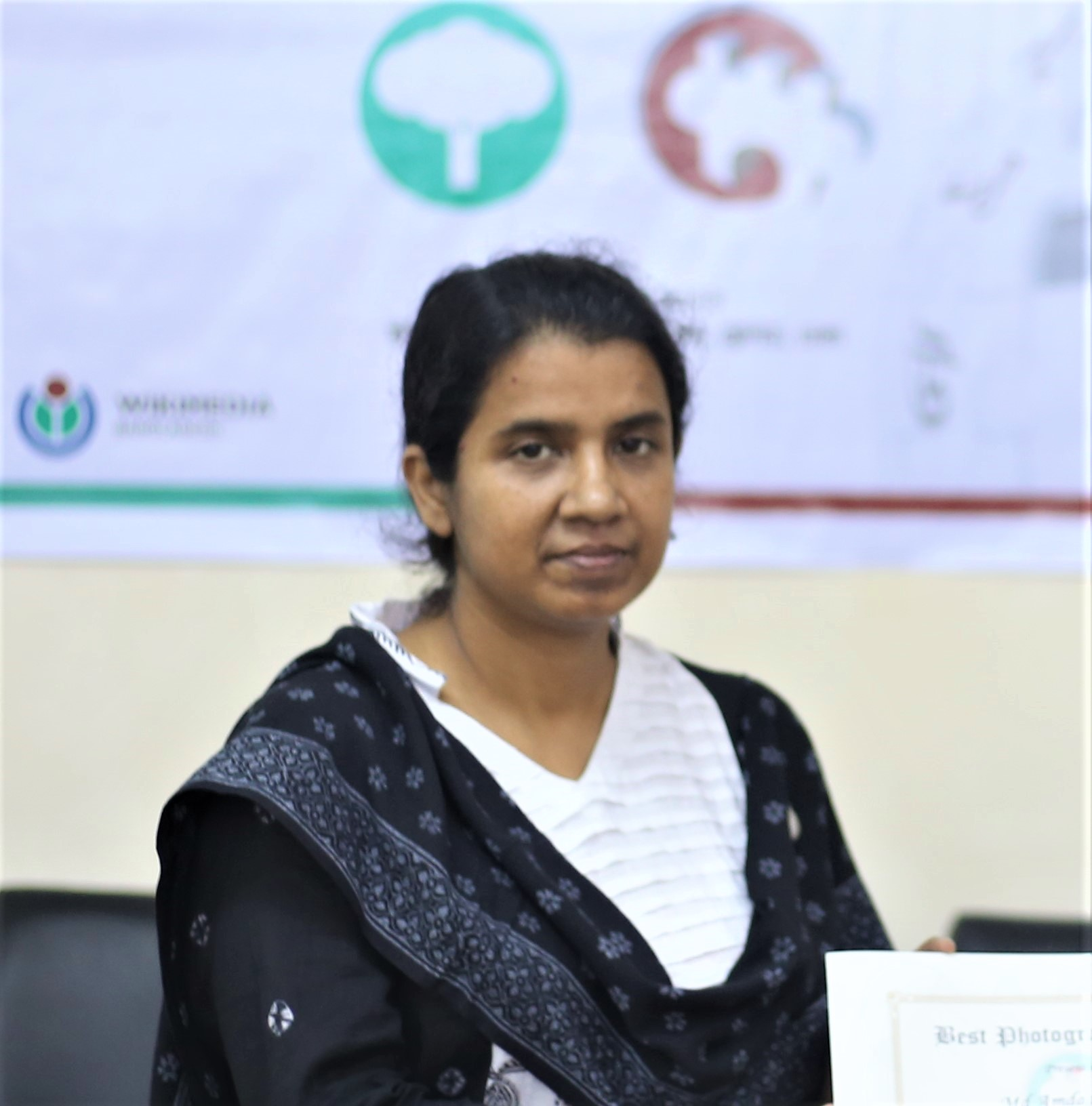 Taslima Akhter